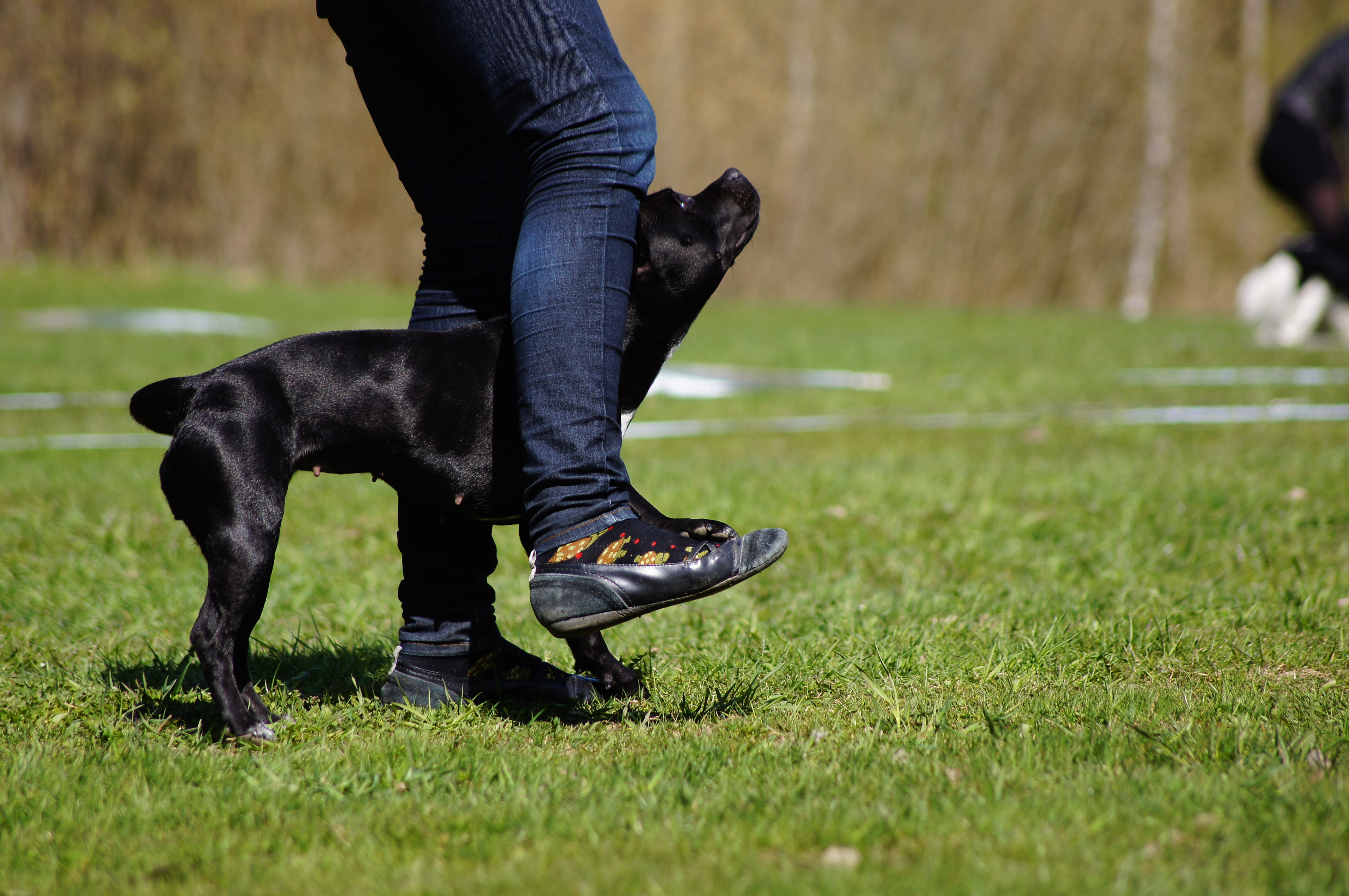 A photo of a staffordshire terrier doing freestyle.